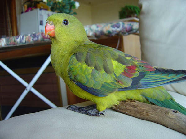 A juvenile Regent Parrot (Polytelis anthopeplus) also known as the Rock Pebbler, Black-tailed Parakeet, Smoker, Marlock Parakeet and sometimes Regent Parakeet.